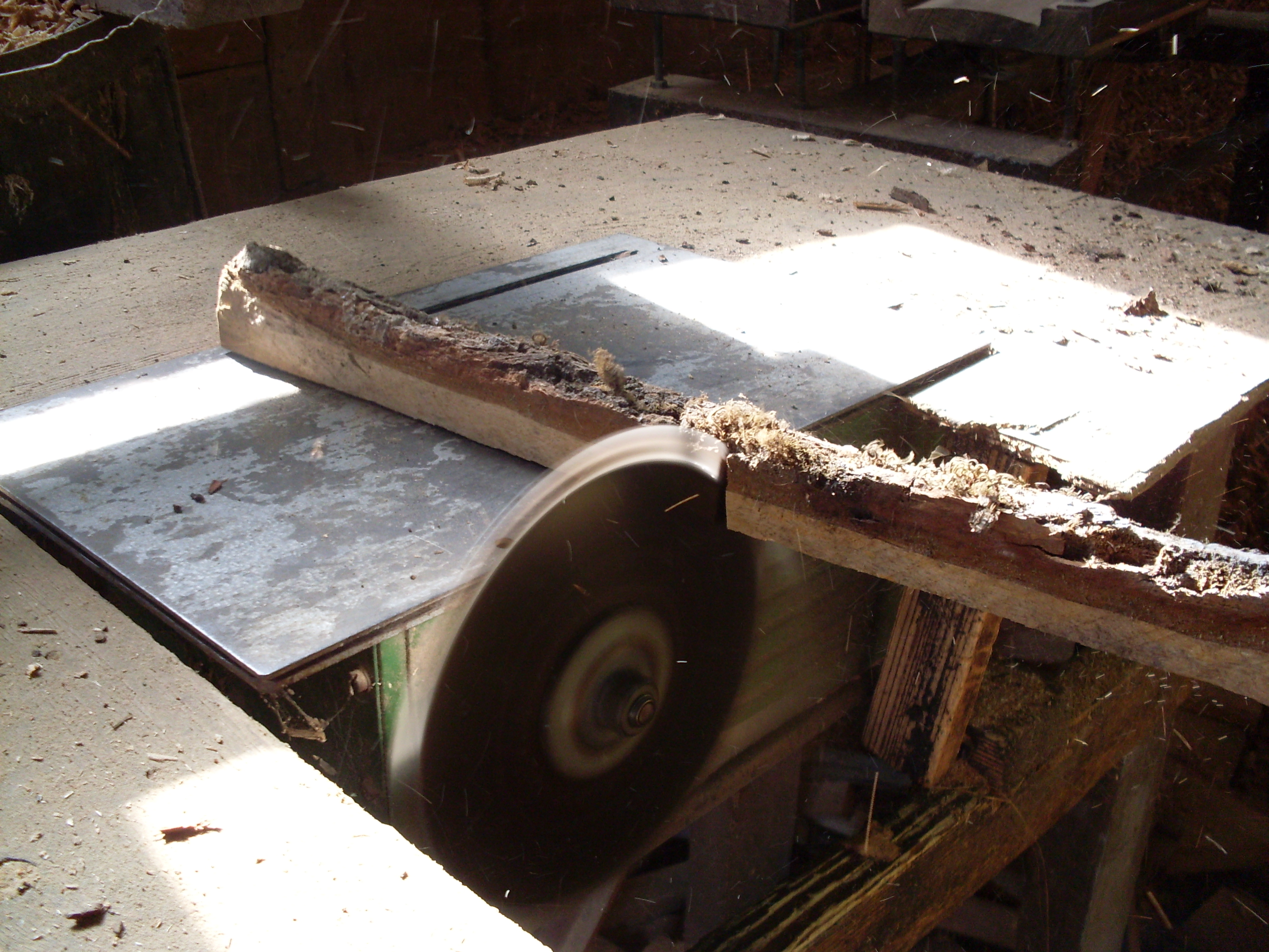 A simple electric engine is attached to a circular saw and allows working with thin pieces of wood